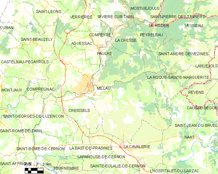 Map commune FR insee code 12145.png - Millau